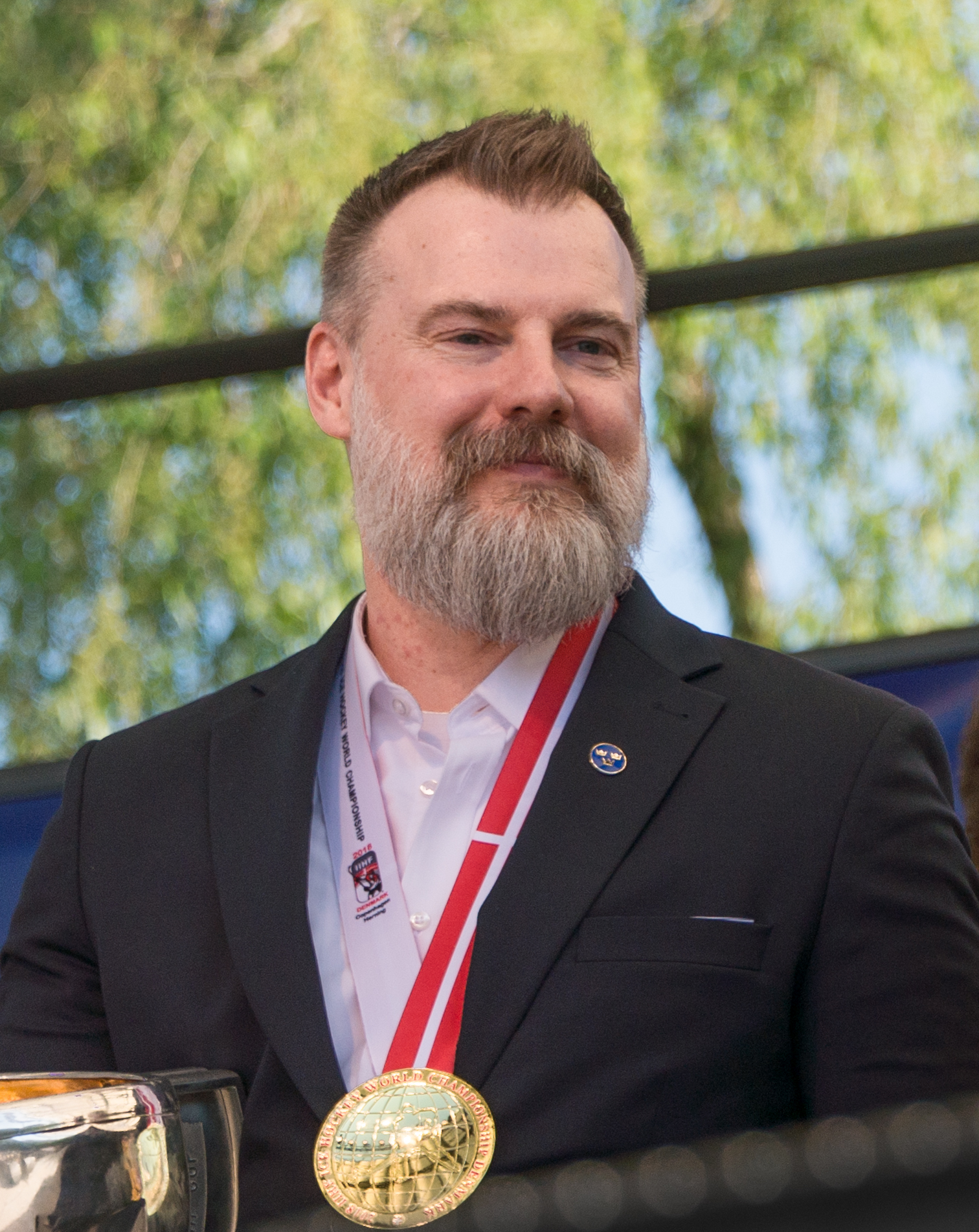 Celebrations of Sweden winning the 2018 IIHF World Championship, in Kungsträdgården, Stockholm, May 21, 2018.